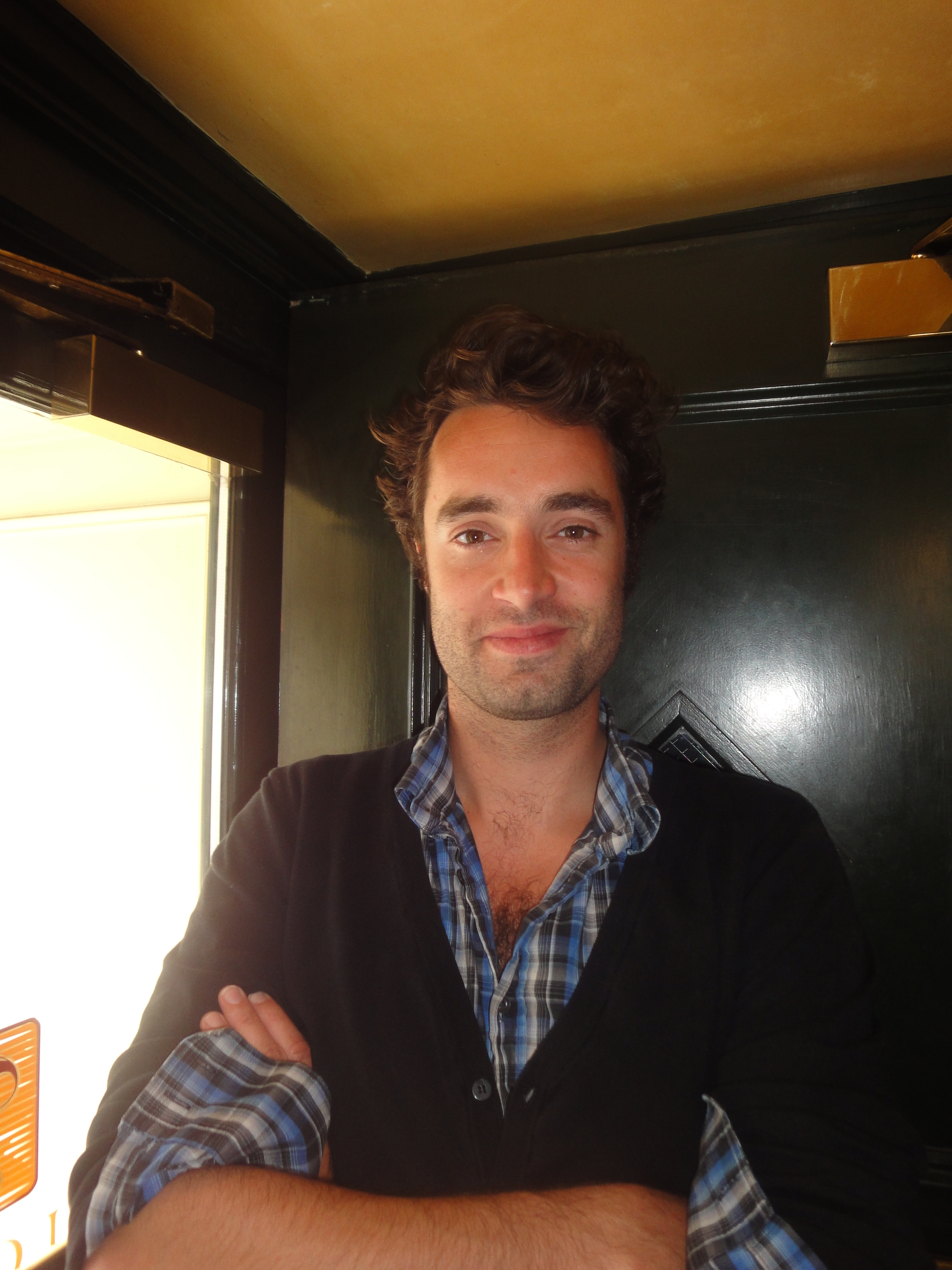 Martijn Hillenius during the recording of Spijkers met Koppen